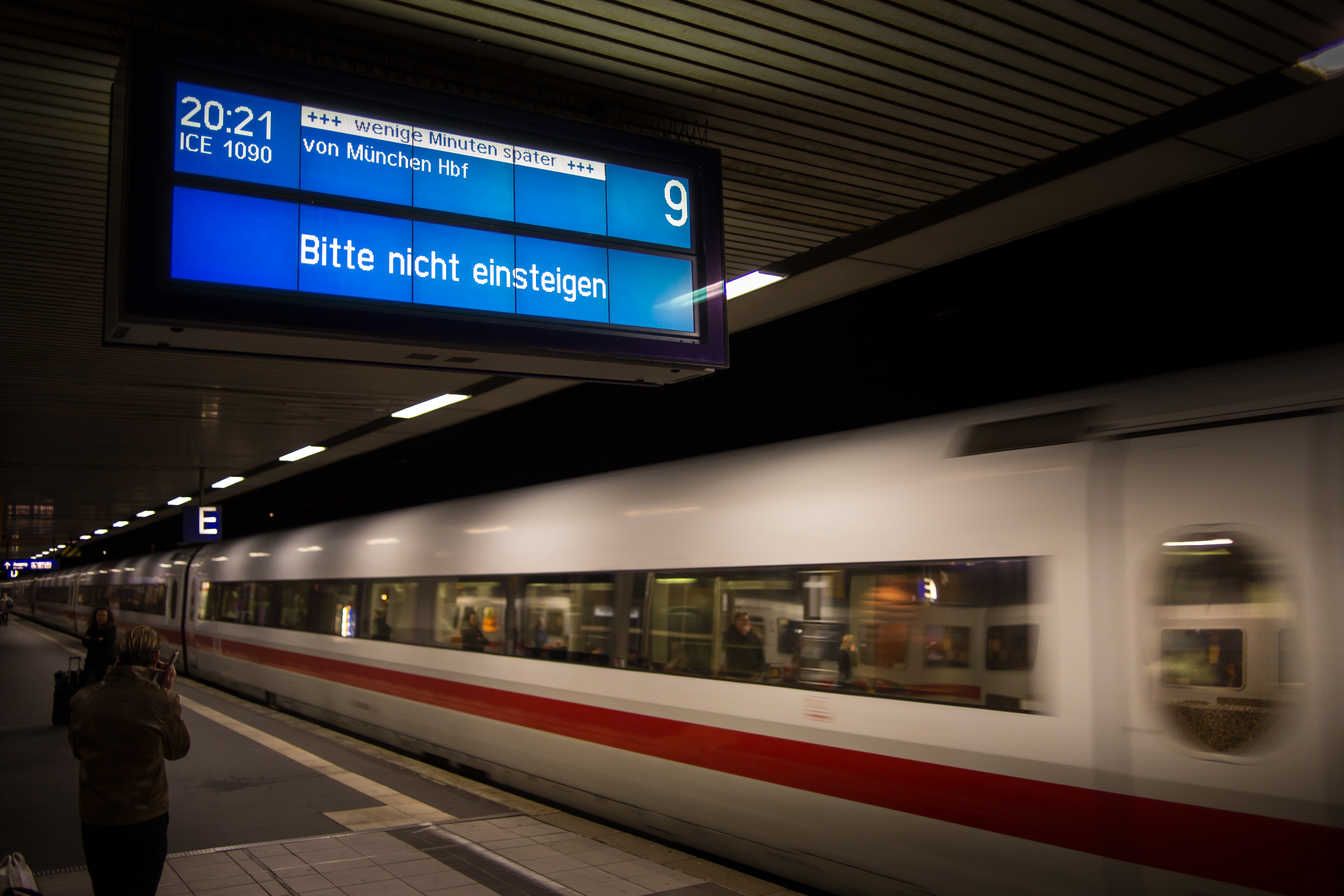 ICE Sprinter express train no. 1090 approaches Hannover, Germany, on September 28th, 2015.